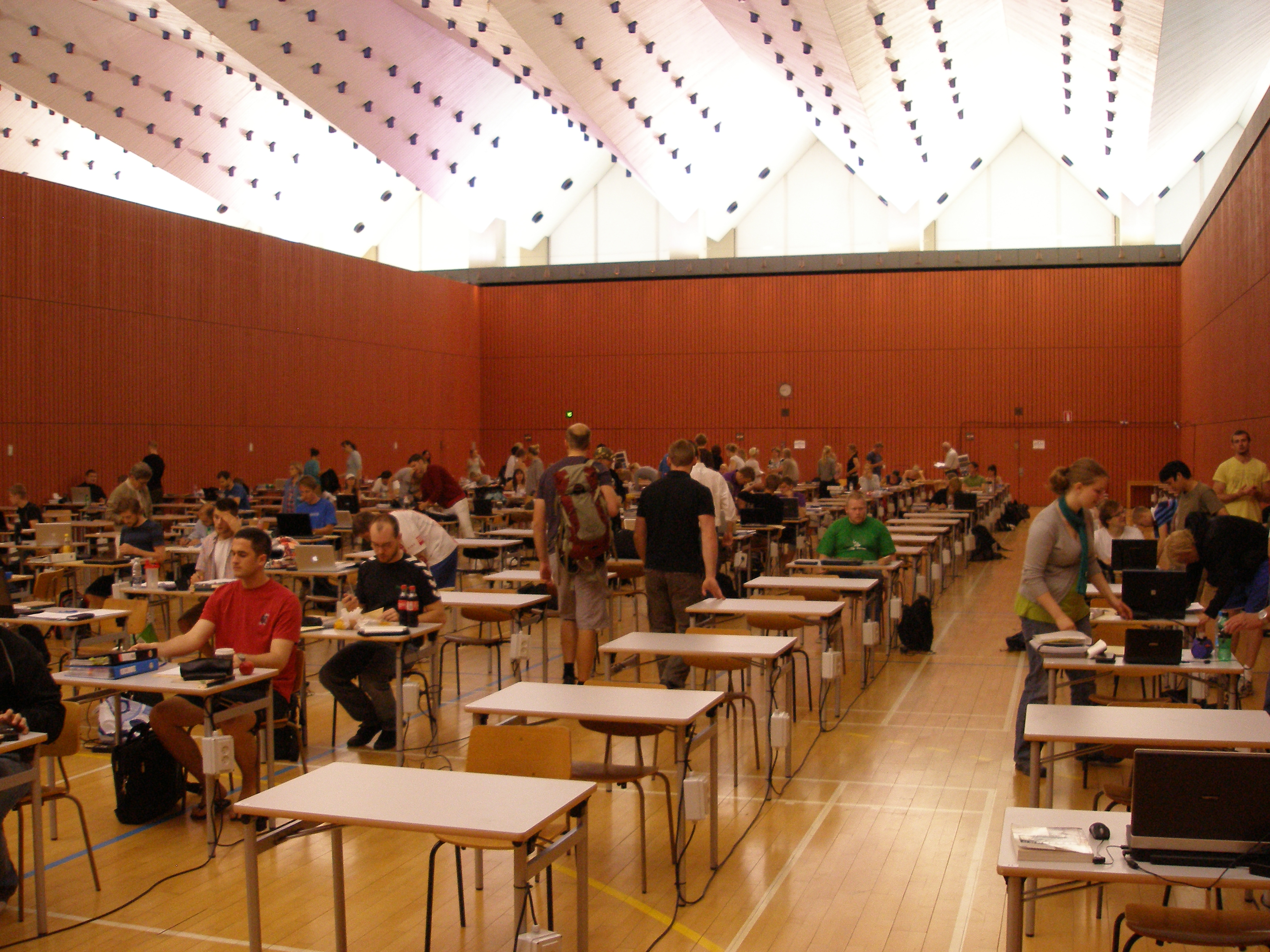 Exam in one of the two sport halls of Danish Technical University (building 101). "All by DTU allowed aids are permitted". Each table has a power outlet installed for the laptops of the students